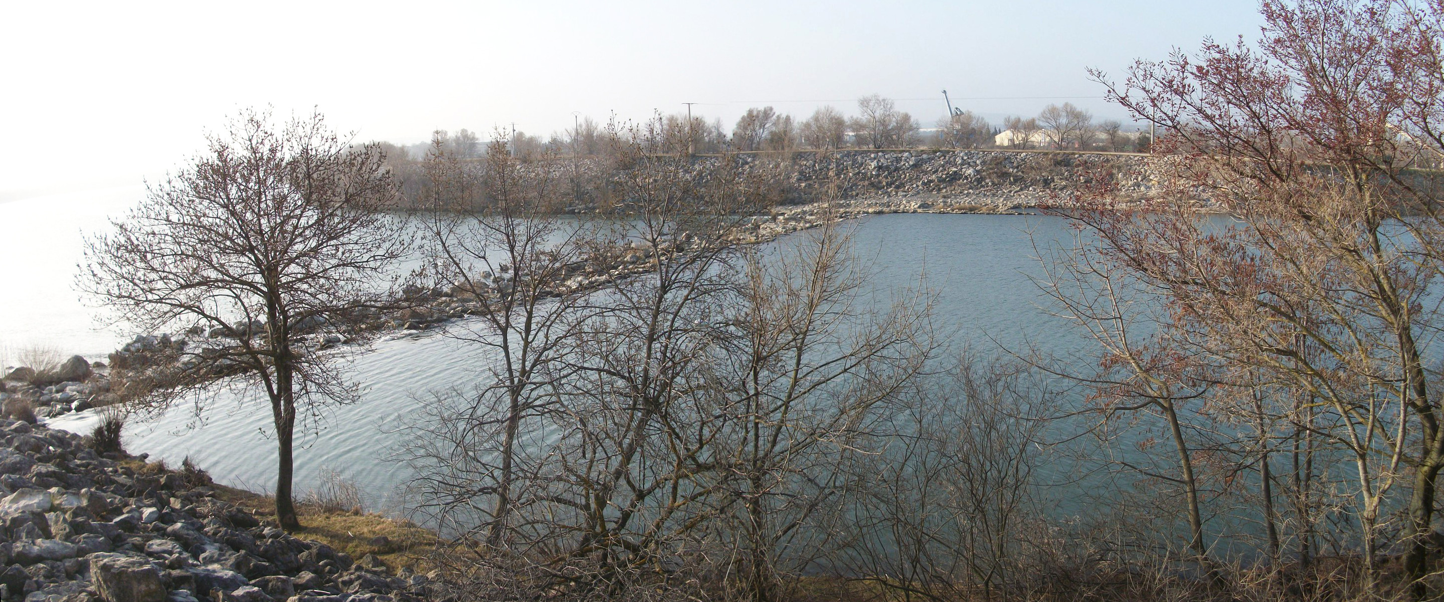 Confluence of the Cèze river into the Rhône river, in the Gard department, between Codolet and Laudun-L'Ardoise. Panoramic picture made with Hugin from two numeric pictures.